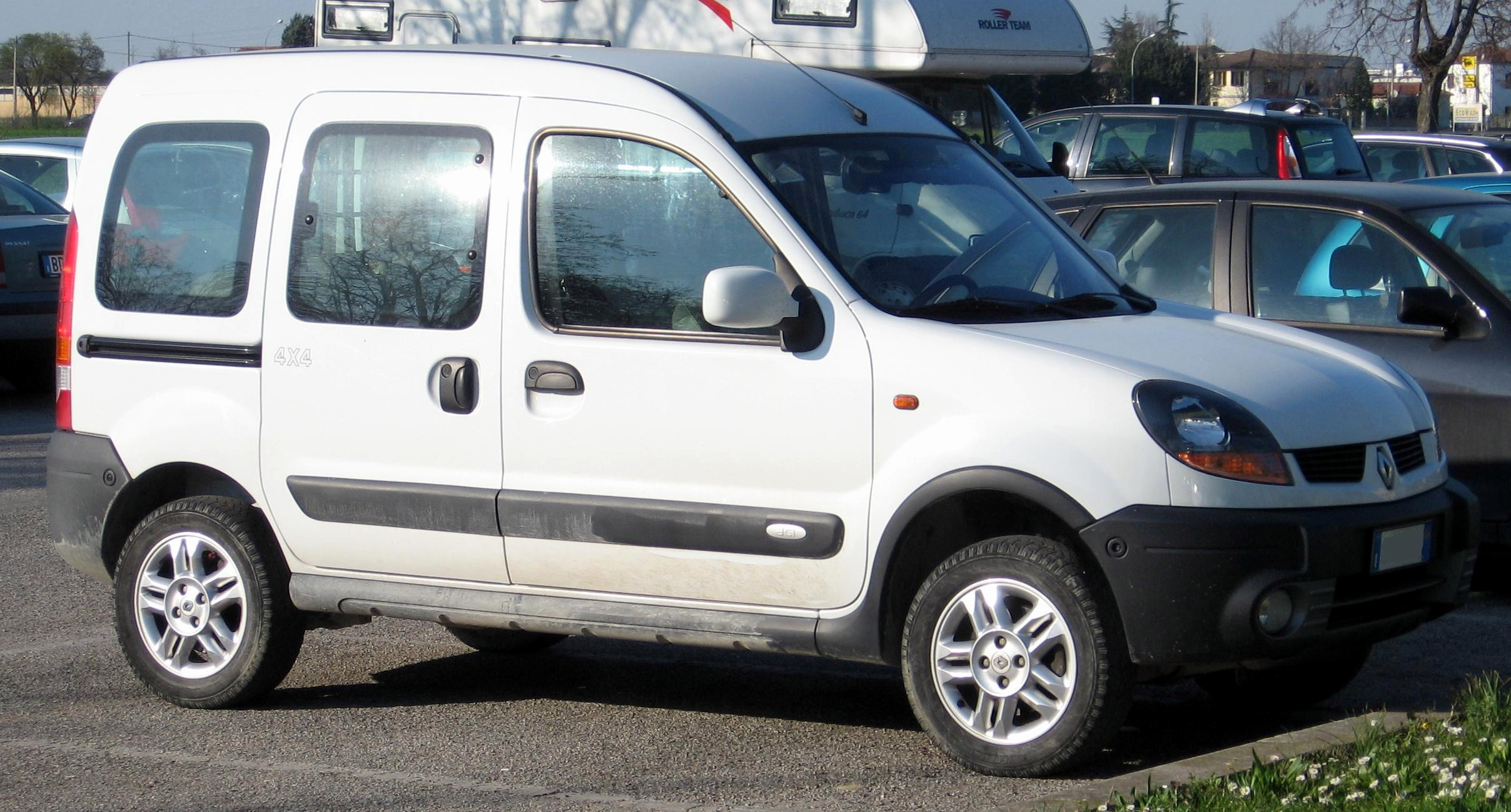 Subject: Renault Kangoo I 4x4 Author: Luc106 Date: 18 march 2007 City/Country: Forlì (Italy) Event: Old Time Show I release all rights in the public domain.